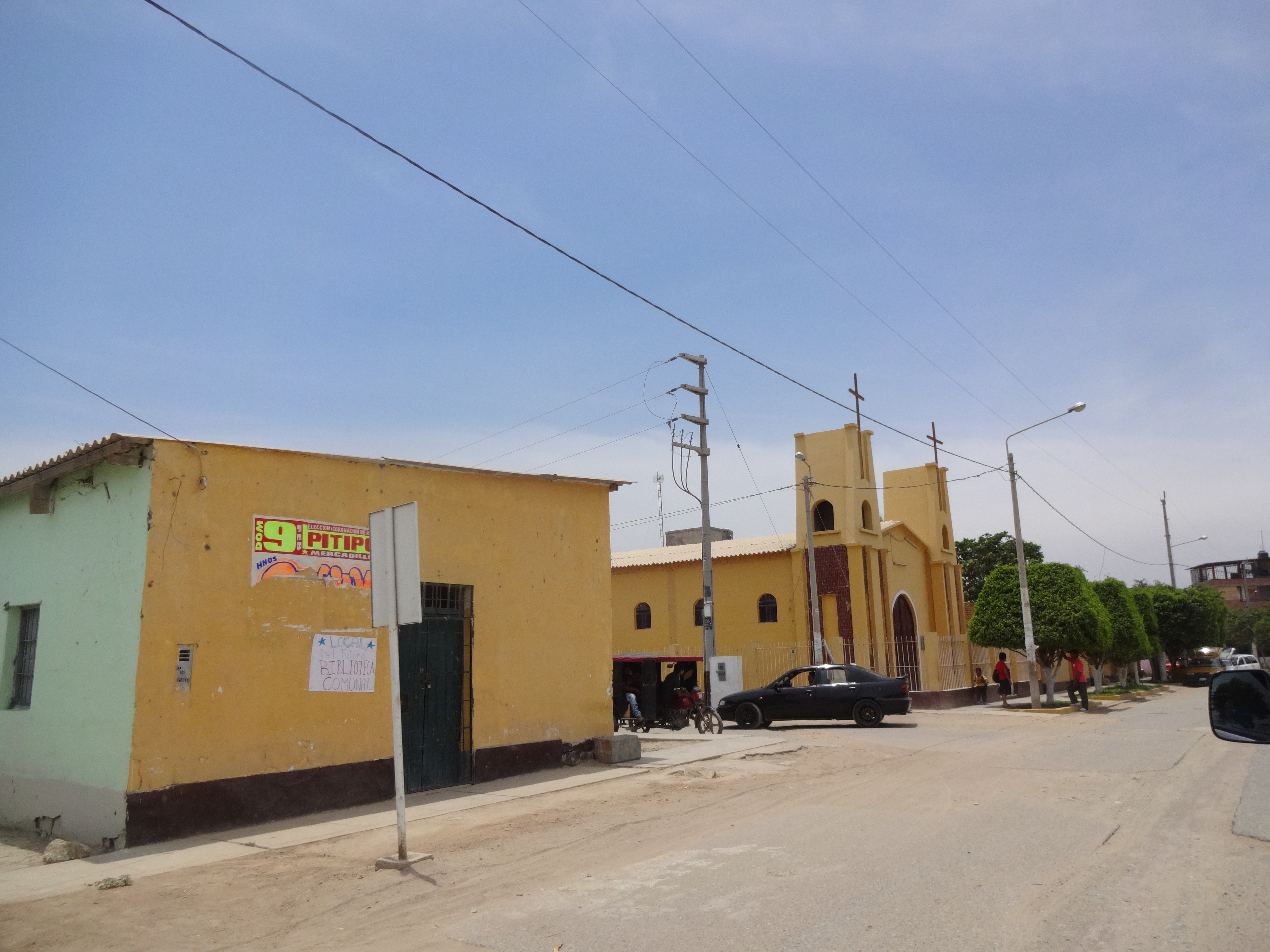 Church in Pitipo District, Ferreñafe Prov., Lambayeque - Peru.